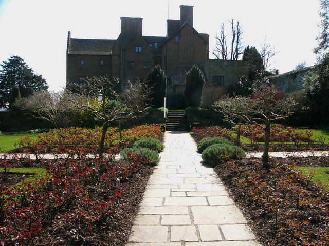 Chartwell house